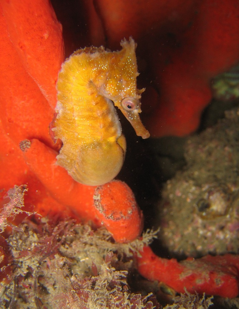 A White's Seahorse (Hippocampus whitei) anchored to a sponge. Pipeline, Port Stephens, NSW